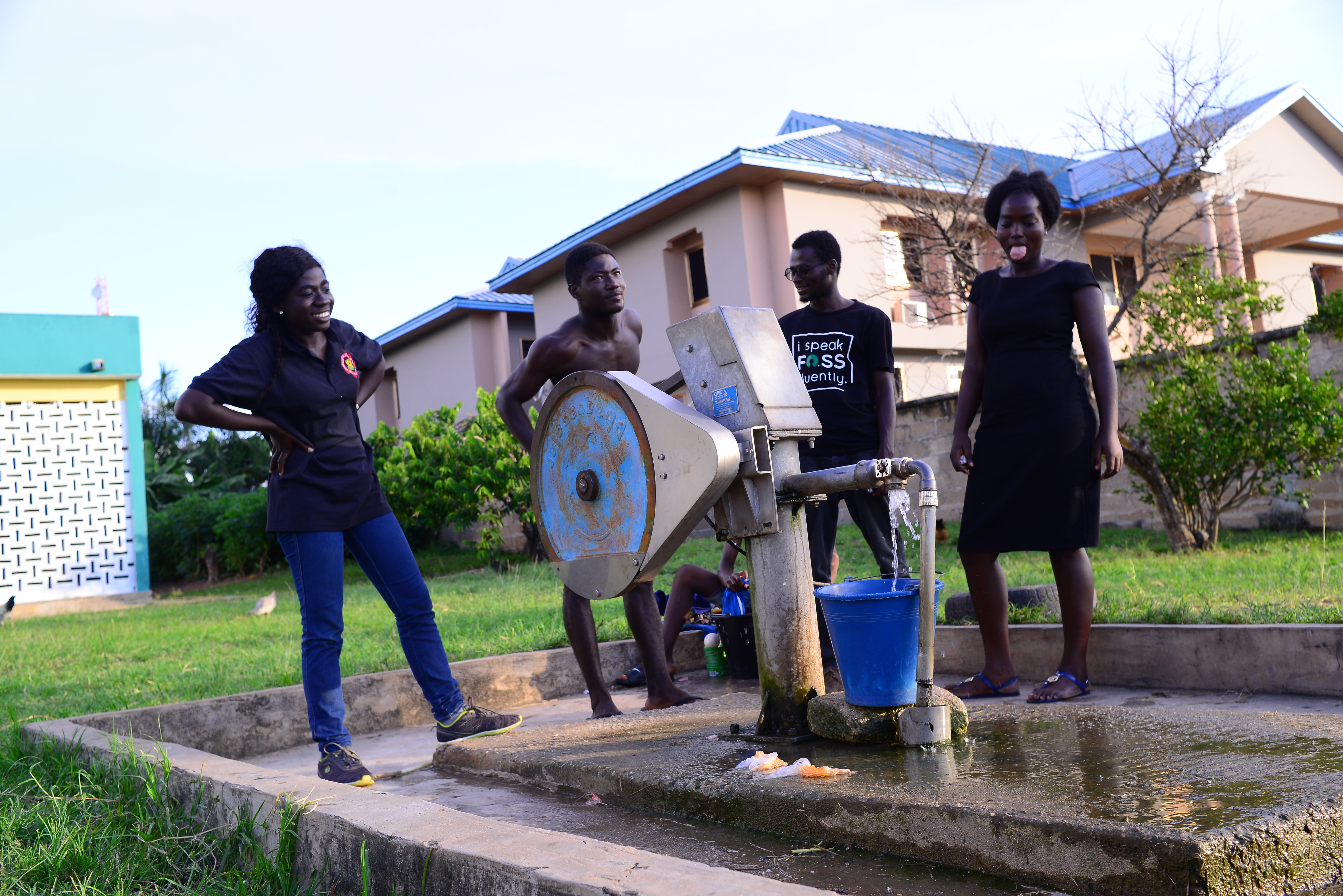 A young man pumping water from the borehole. This photo has been taken in the country: Ghana